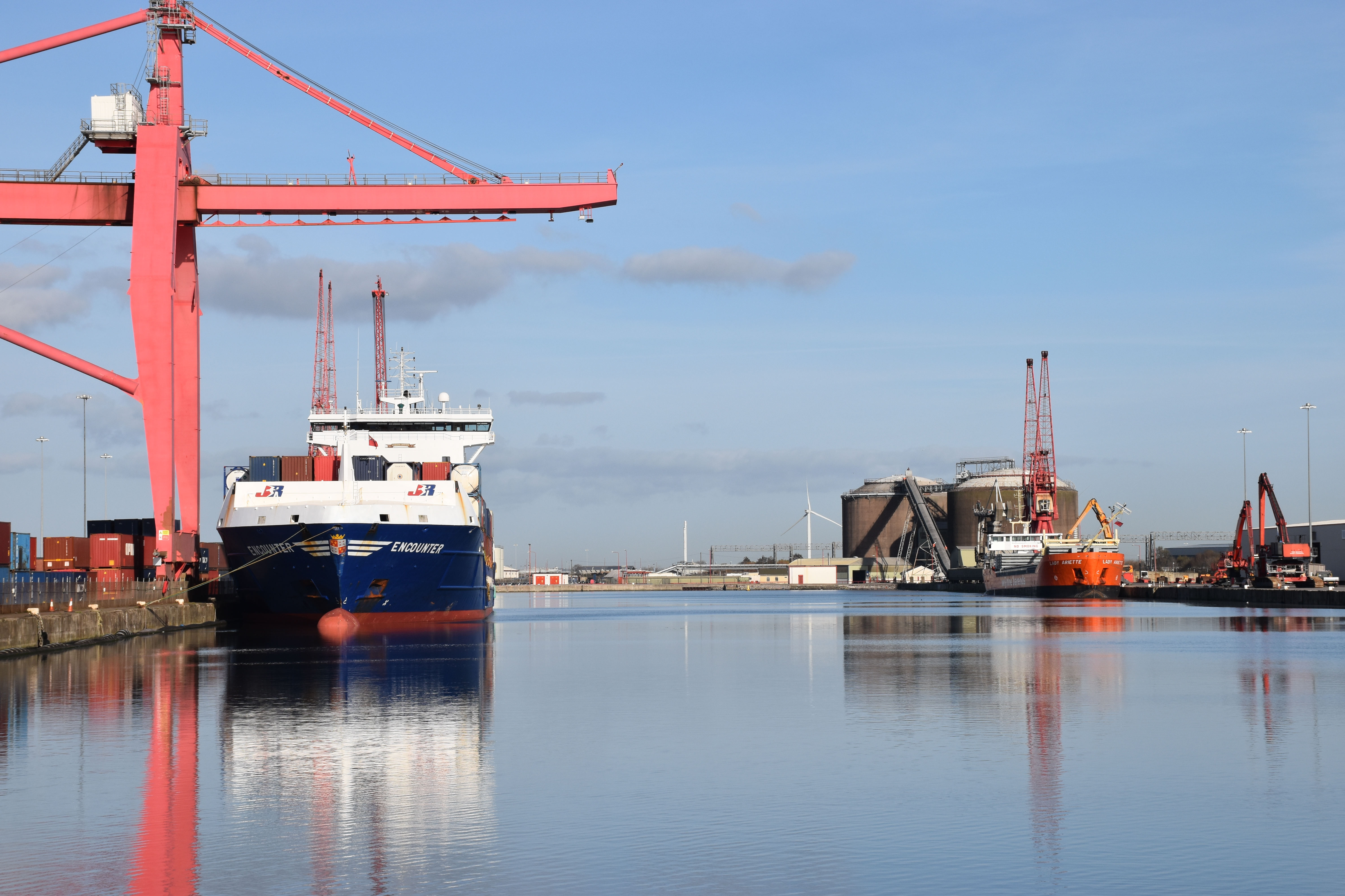 The Royal Edward Dock at Avonmouth, 17 November 2017. On the left, containerfeeder Encounter discharging containers from Spain, on the right Lady Ariette can be seen discharging general cargo products.